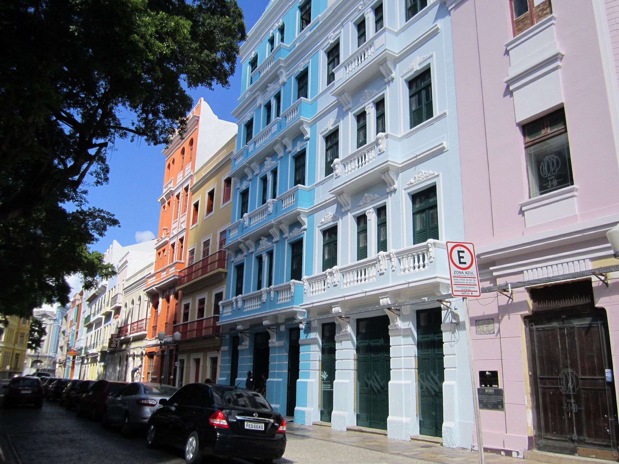 Bom Jesus street, Old Recife - Recife, Pernambuco, Brazil